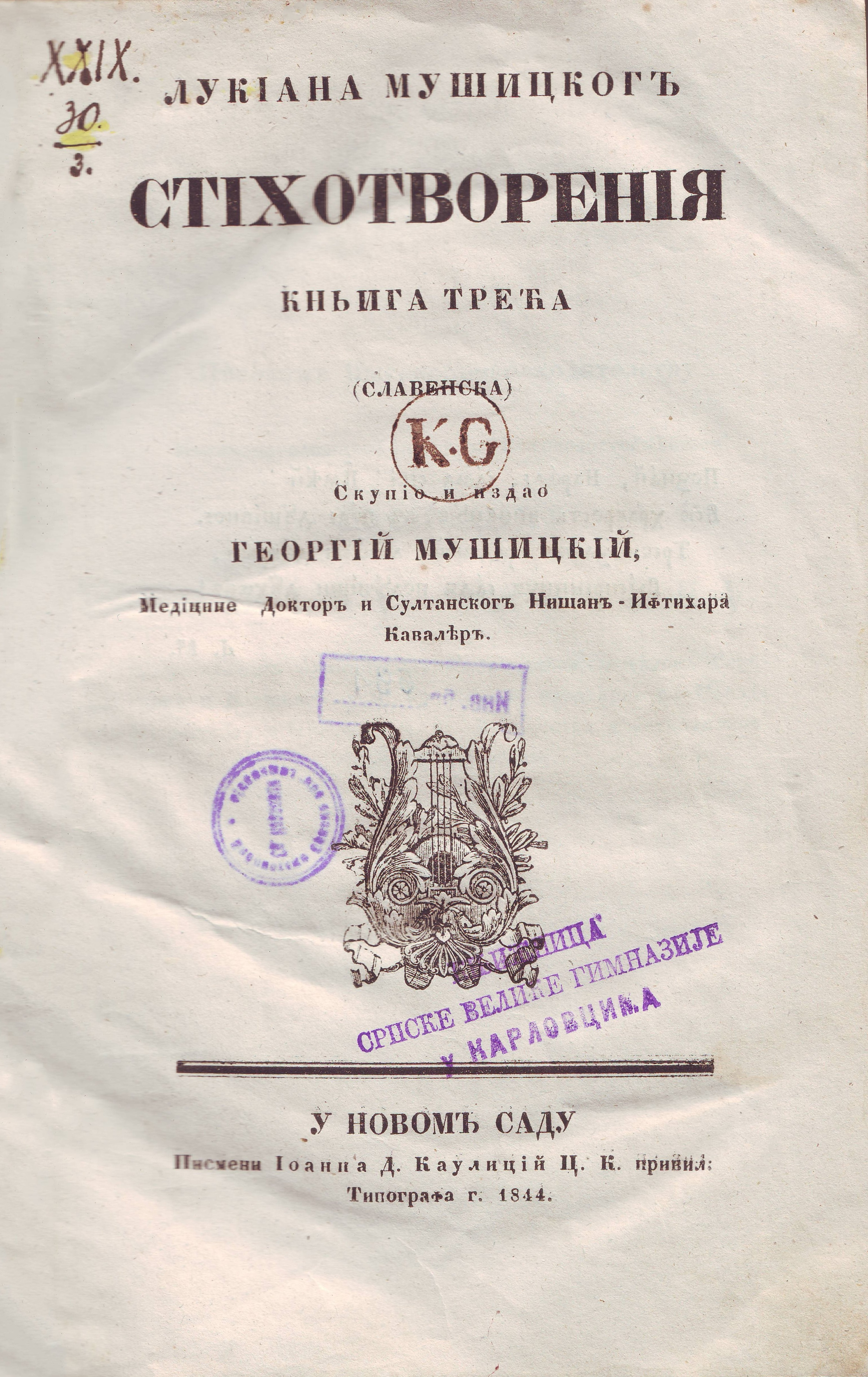 Cover of the third book of poetry Stihotvorenija (1844) by Lukijan Mušicki. Srpski (latinica): Naslovna strana treće knjige zbirke pesama Lukijana Mušickog Stihotvorenija (1844).